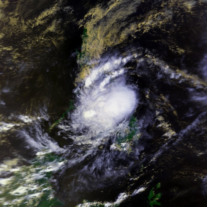 This image shows Tropical Storm Thelma after making landfall on November 5 at 0459 UTC. This image was produced from data from NOAA-11, provided by NOAA.